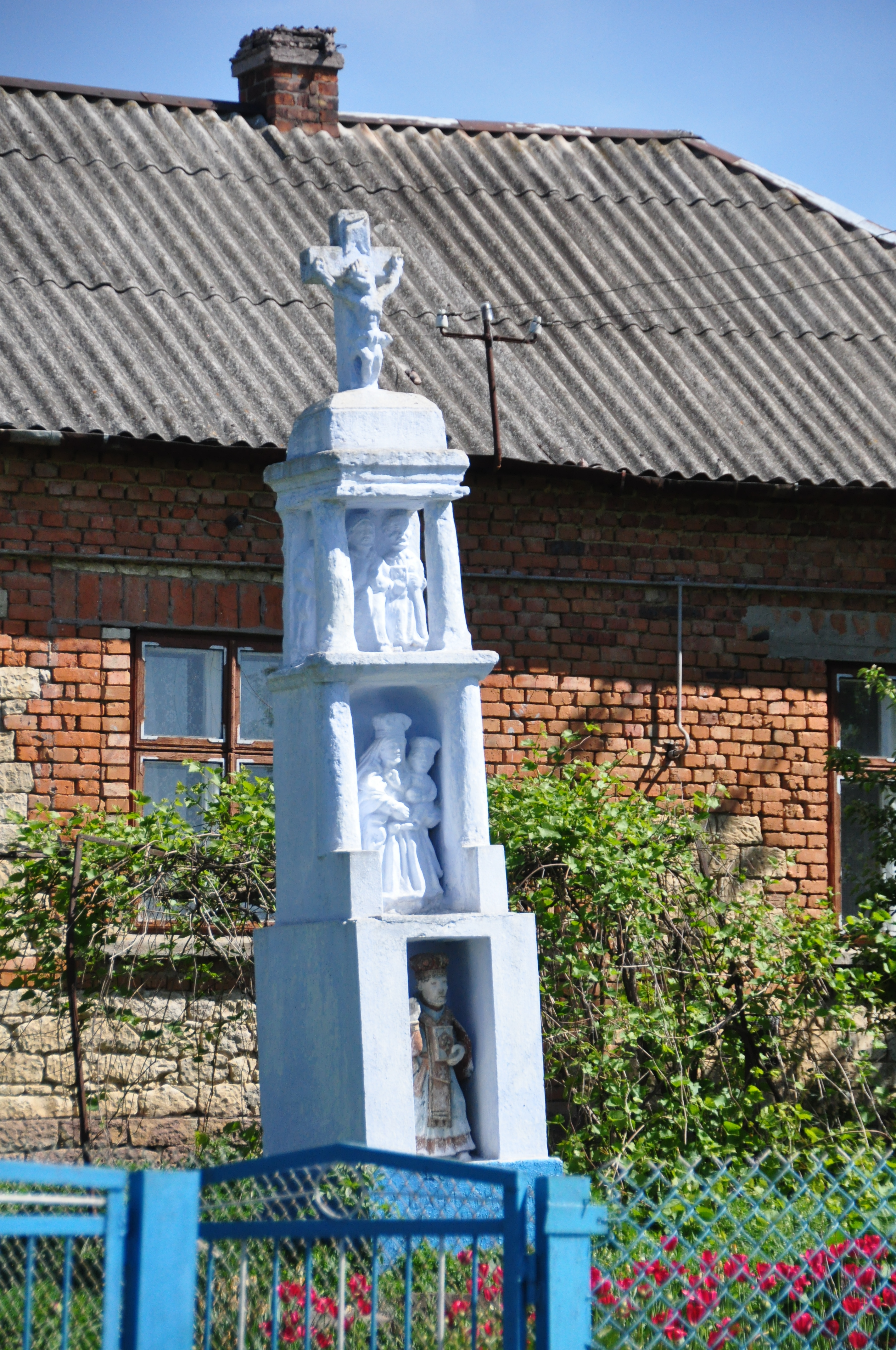 Figurine in Zazdrist village, Ternopil Oblast